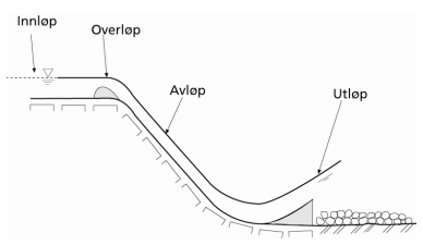 Spillway